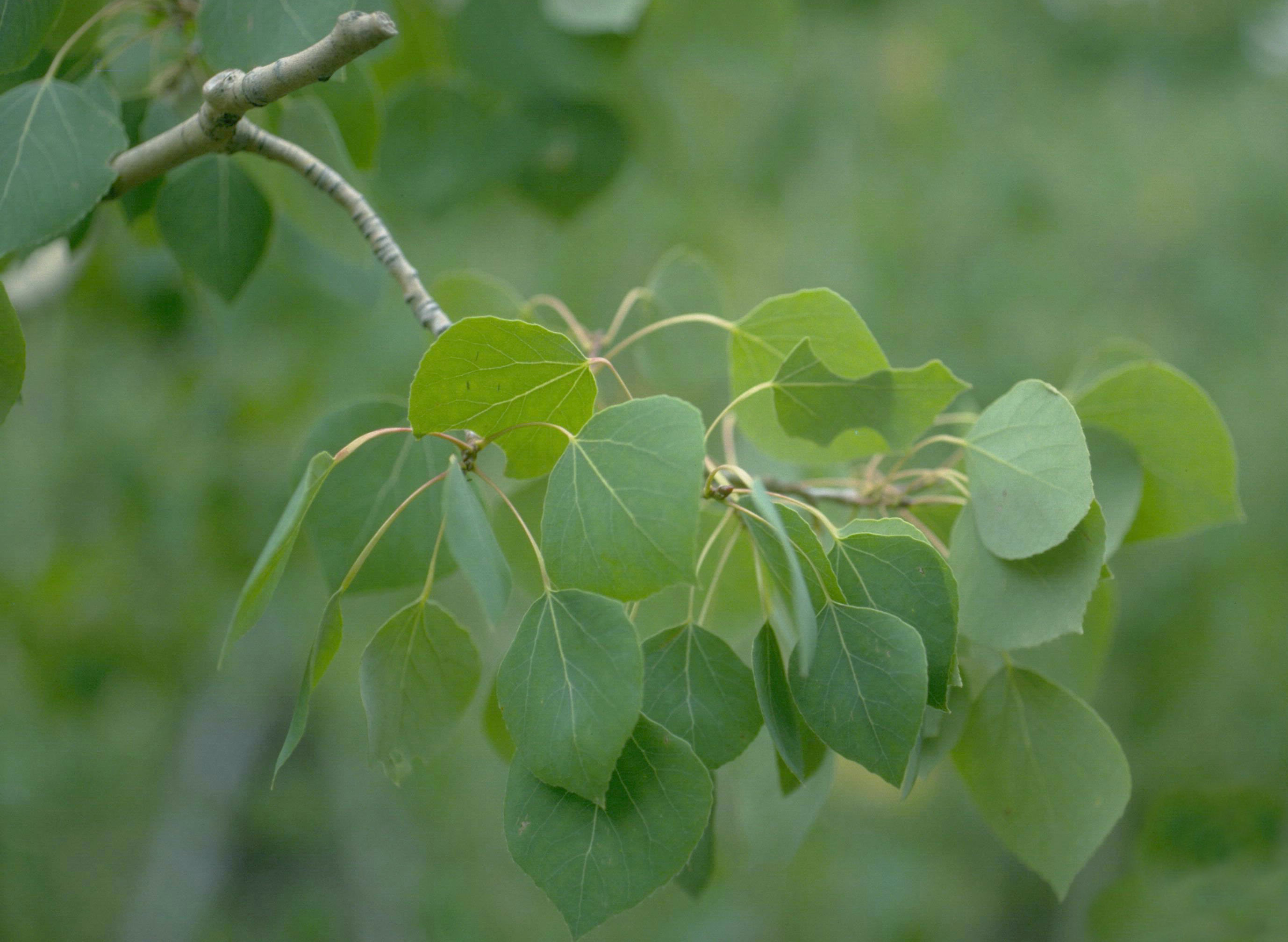 Populus tremuloides foliage. Rocky Mountain Park, Colorado.